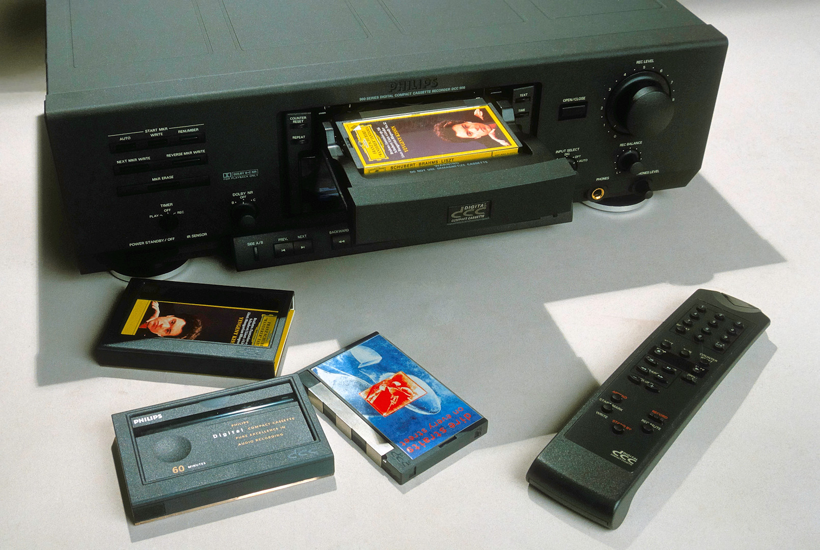 Philips DCC-900 DCC Recorder (for use with Hi-Fi system) and DCC cassettes